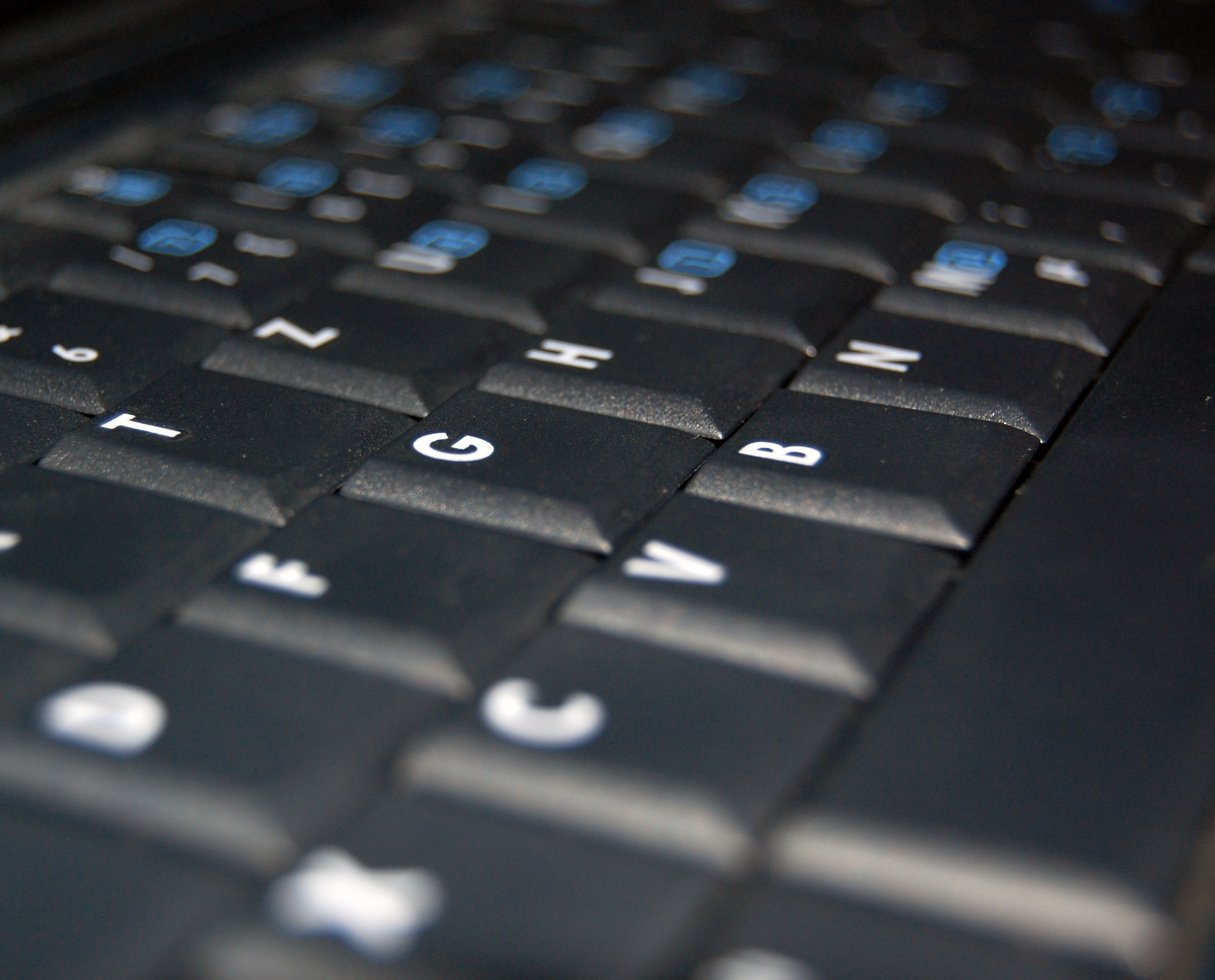 A keyboard of an laptop made by Hewlett Packard.